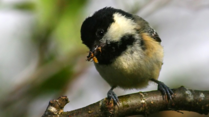 Coal Tit (Parus ater)